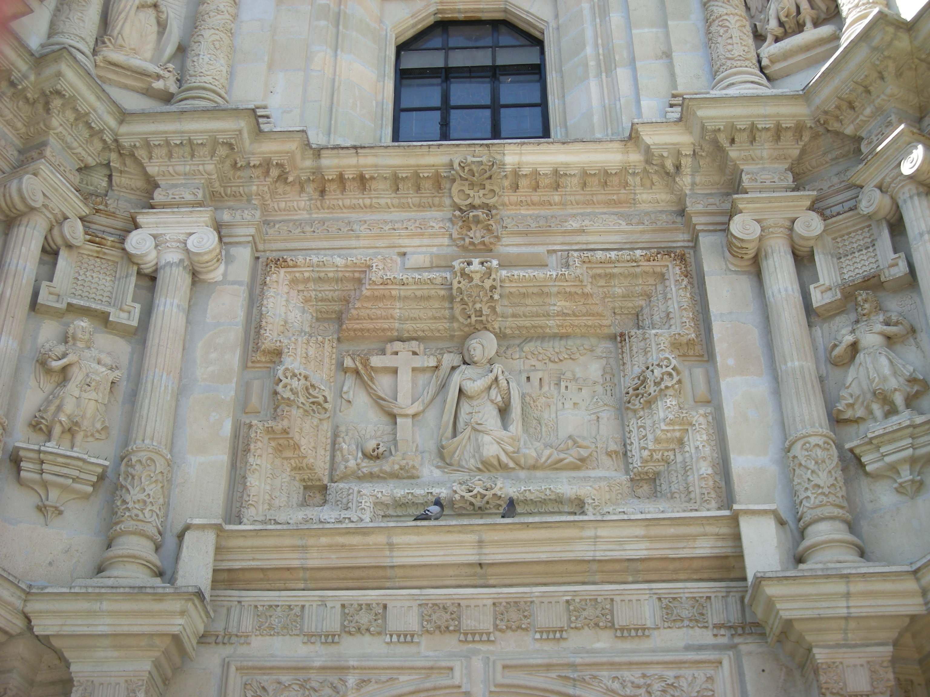 A carving of the Virgen de Soledad above the main entrance of the Basiclica de Nuestra Señora de Soledad in the city of Oaxaca in Mexico